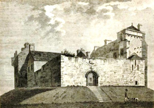 Drawing of Kenmure Castle, south-west Scotland, by Francis Grose